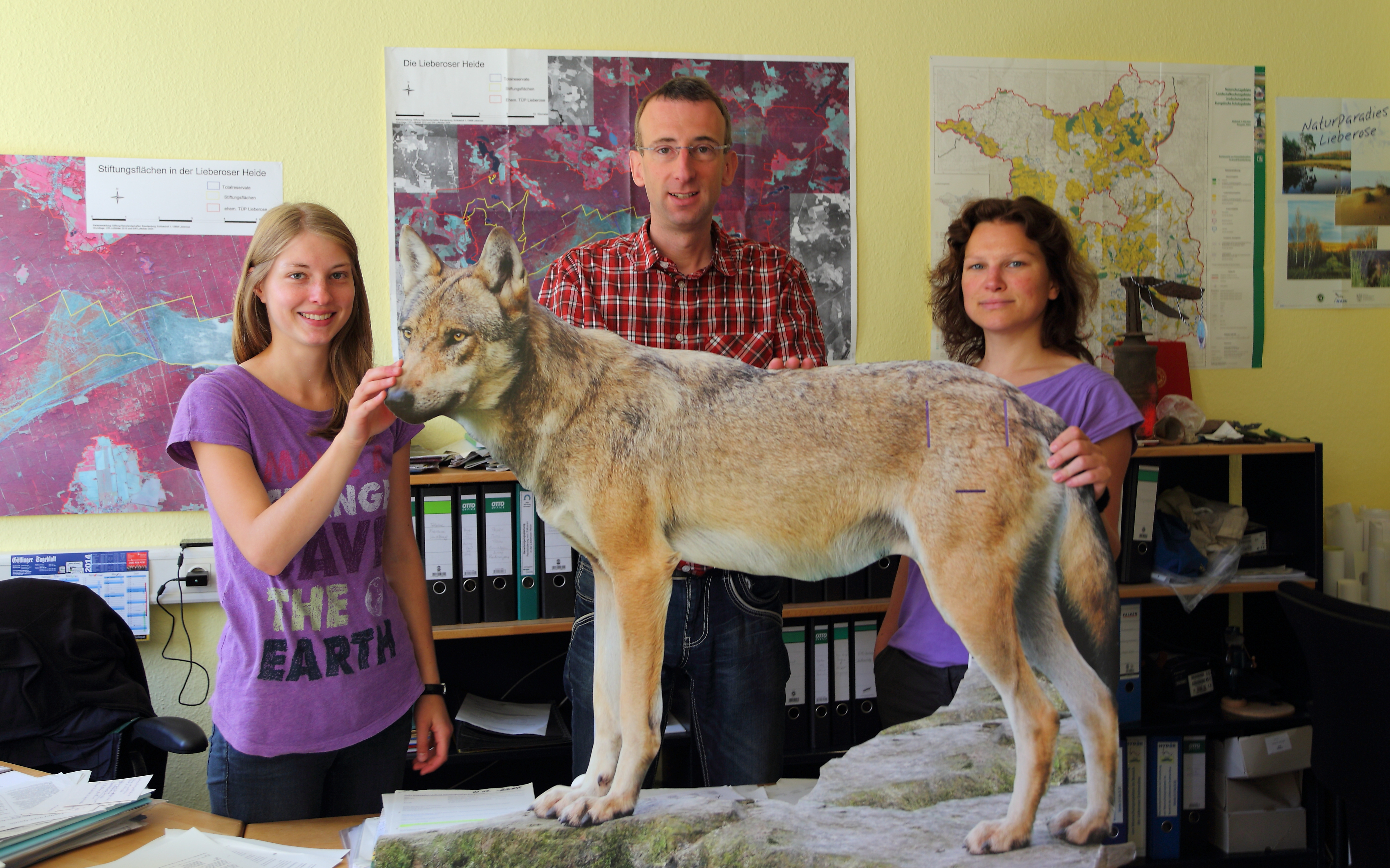 2013/2014 staff of the Brandenburg Wilderness Foundation's (Stiftung Naturlandschaften Brandenburg) branch office in Lieberose (left to right): Alina Glamann, participant of the voluntary ecological year (Freiwilliges Ökologisches Jahr, FÖJ), project manager Dr Heiko Schumacher and Jenny Eisenschmidt, project co-ordinator for the planned „Lieberoser Heide International Nature Exhibition“ (Internationale Naturausstellung Lieberoser Heide). Photography taken in the foundation's office in Lieberose, Landkreis Dahme-Spreewald, Brandenburg, Germany.